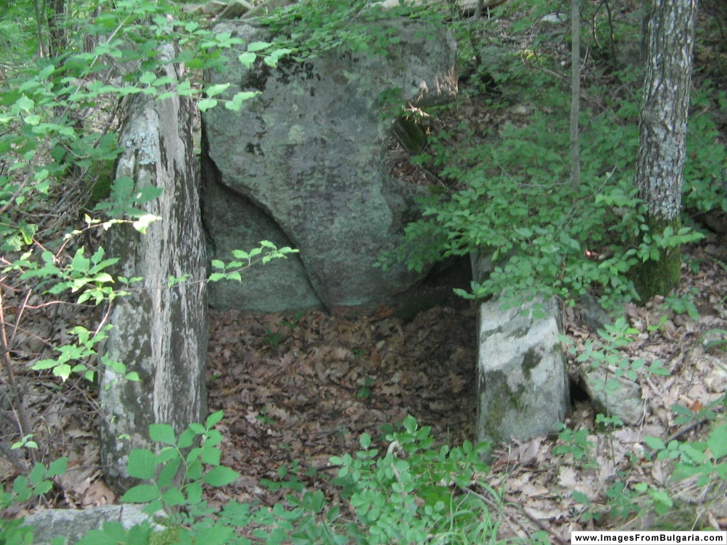 Dolmen in Hambar dere.